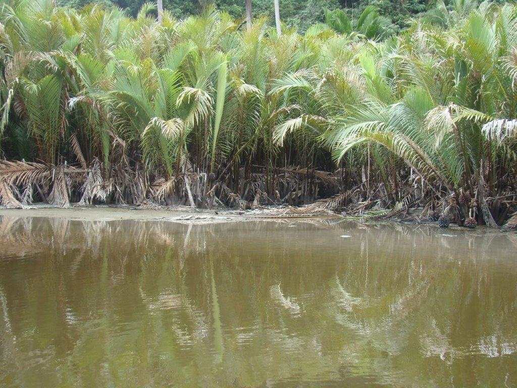 Growing seedlings of Sago in a river bank, Papua New Guinea